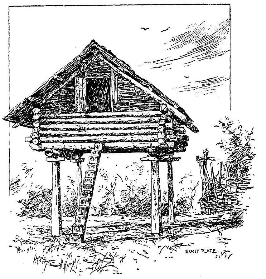 A Mingrelian hut